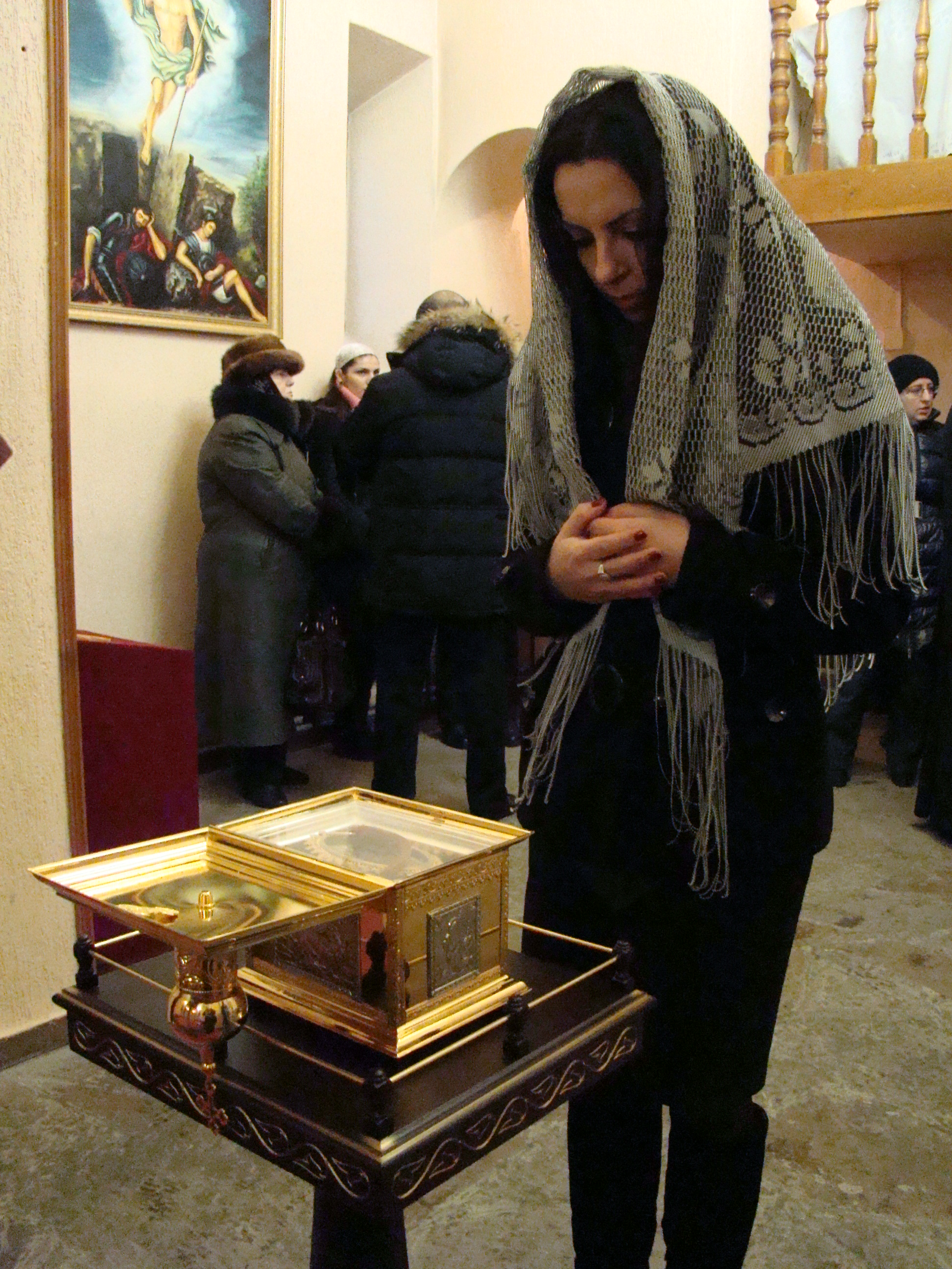 Sourb Gevorg church in Volgograd